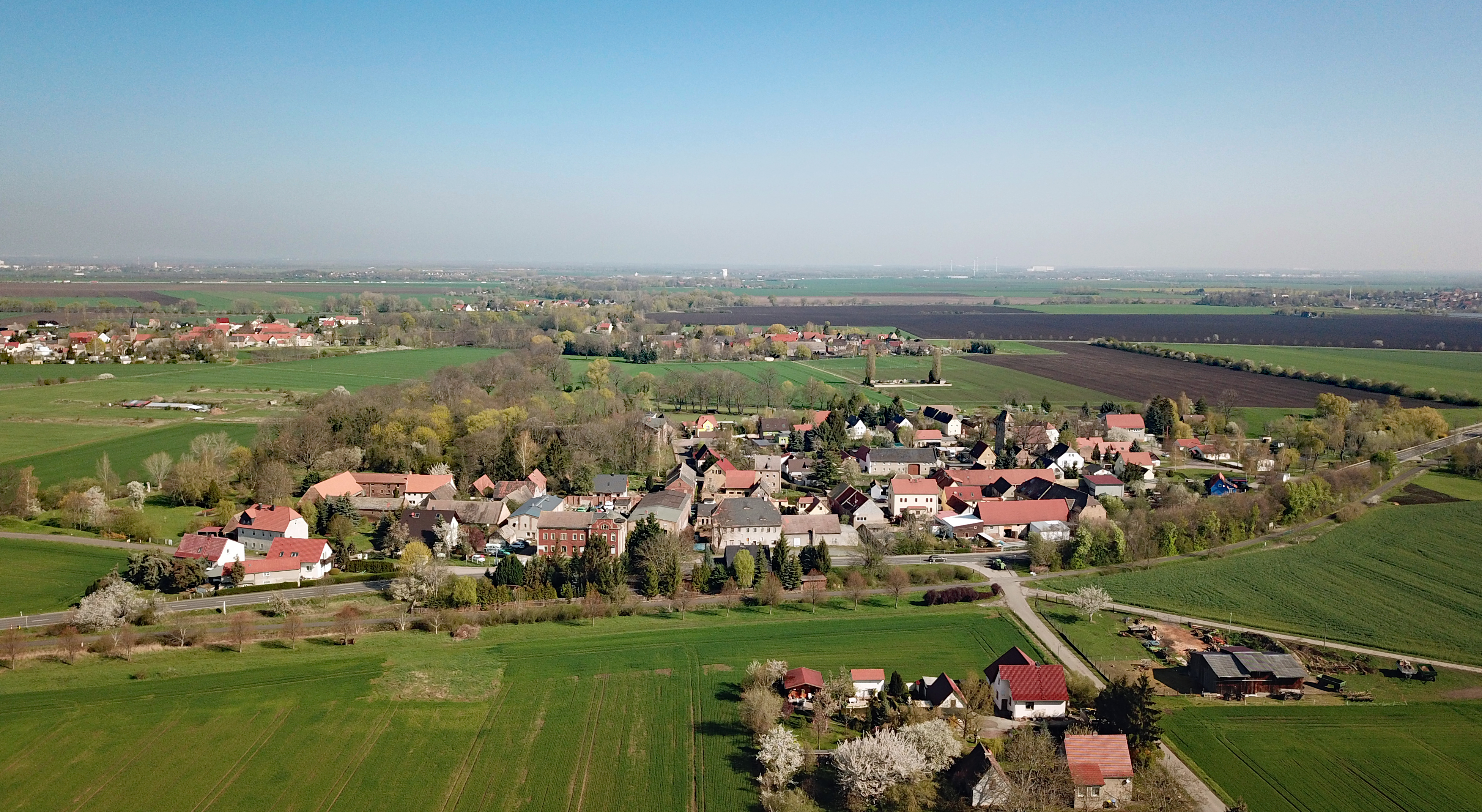 Röcken (Lützen, Saxony-Anhalt, Germany)